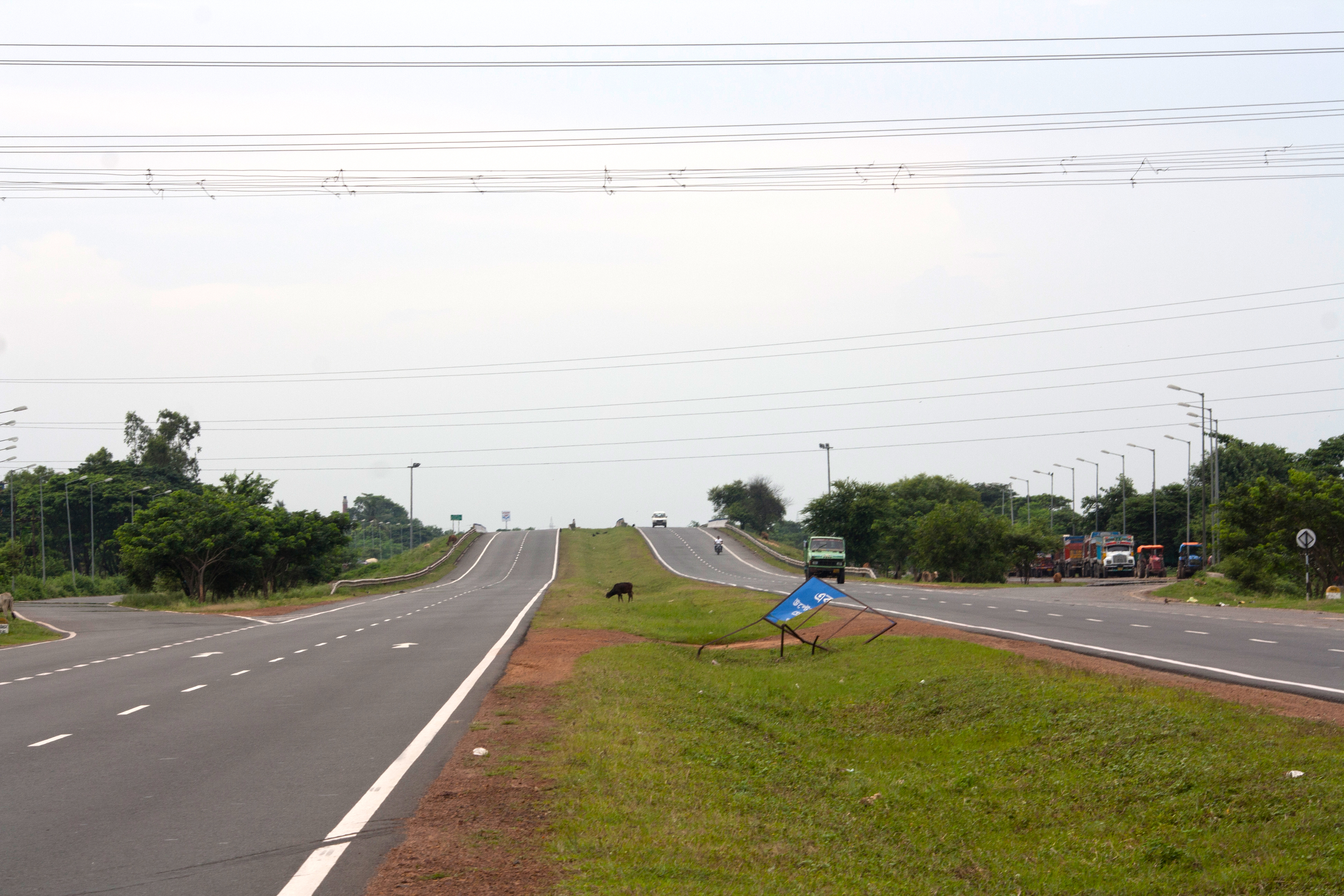 This Photograph was taken on Durgapur Expressway.